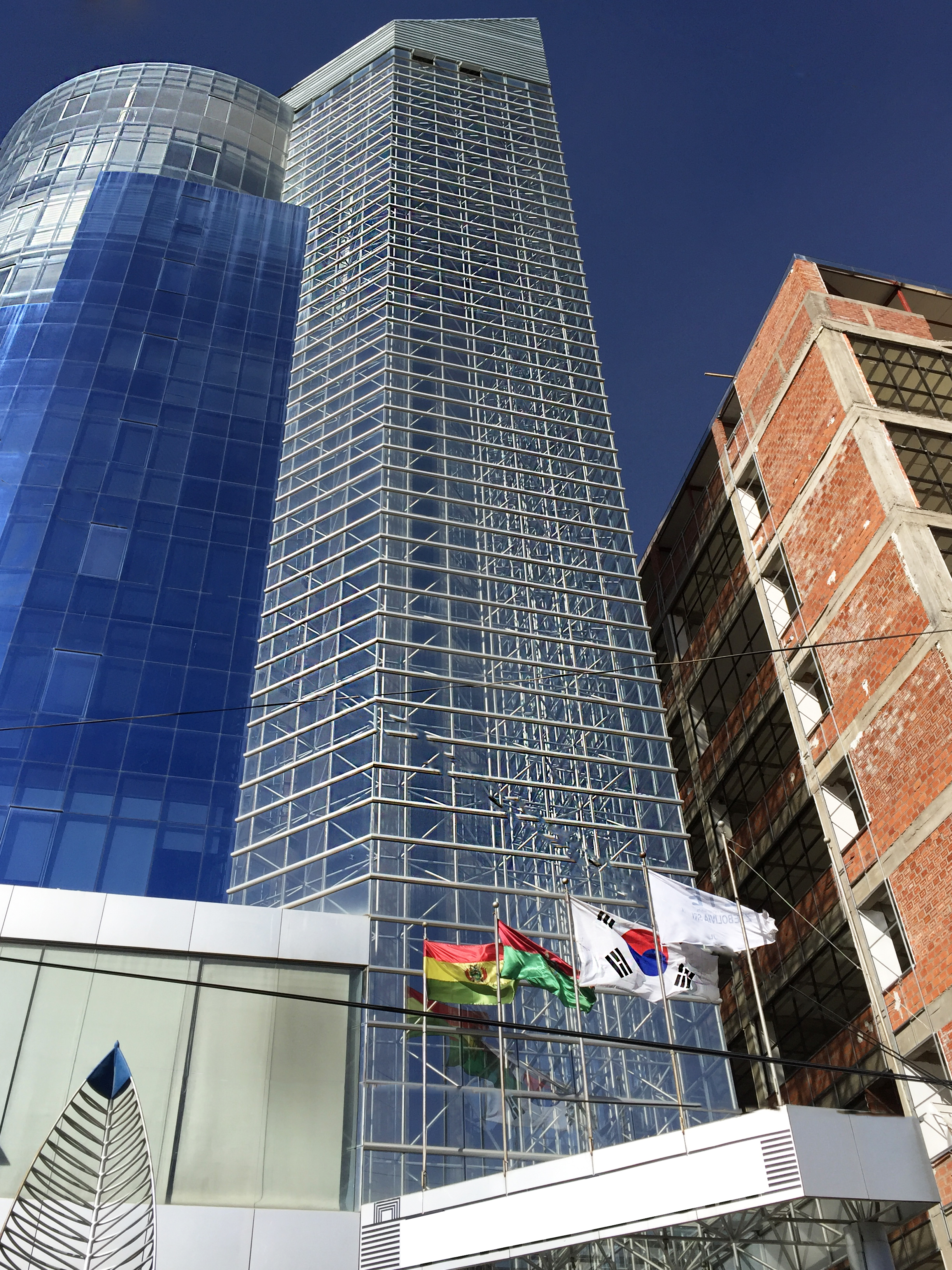 South Korean Embassy in La Paz